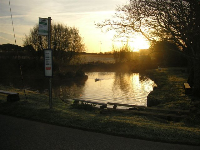 Duck pond and bus stop at Polgigga. The most south-westerly bus-stop in the UK, with buses between Lands End and Penzance.